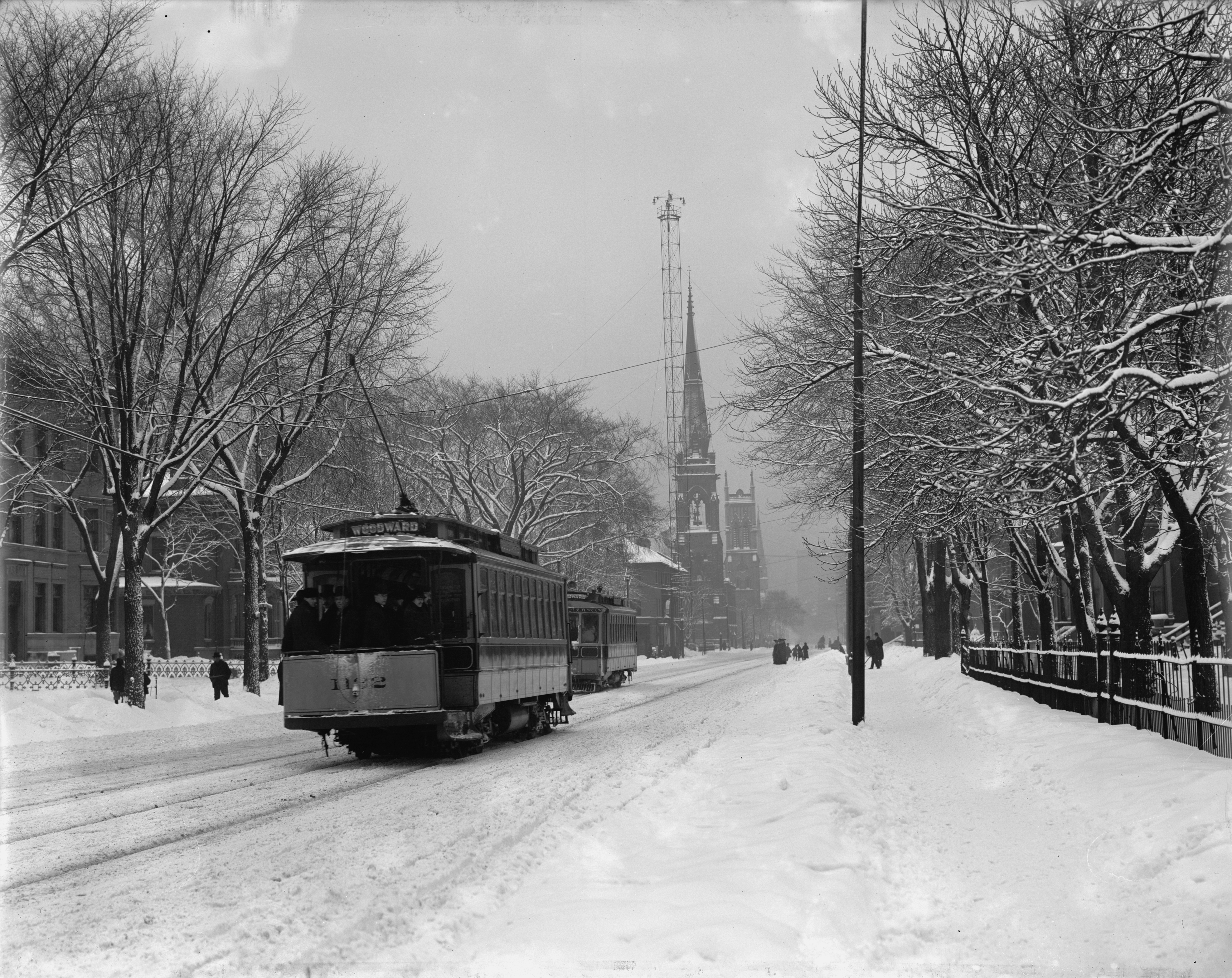 Woodward Avenue in winter attire, Detroit, Mich.